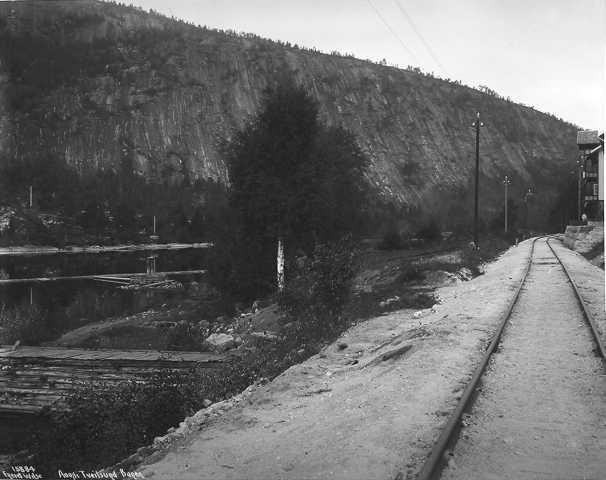 The Treungen Line at Åmli, Norway